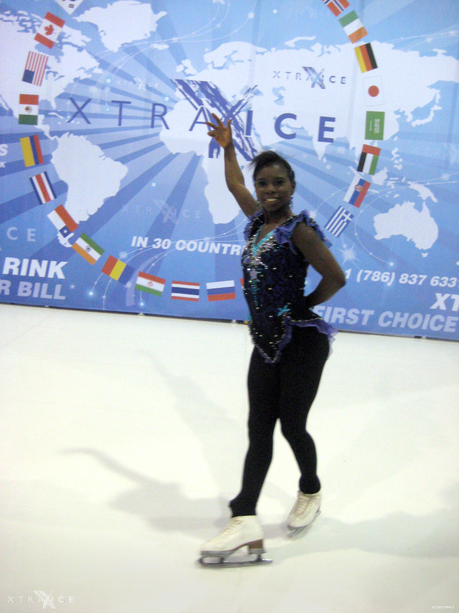 Xtraice leader in ecological ice rinks. The Olympian Medalist, Surya Bonaly skating on XTRAICE in Las Vegas, NV, USA.